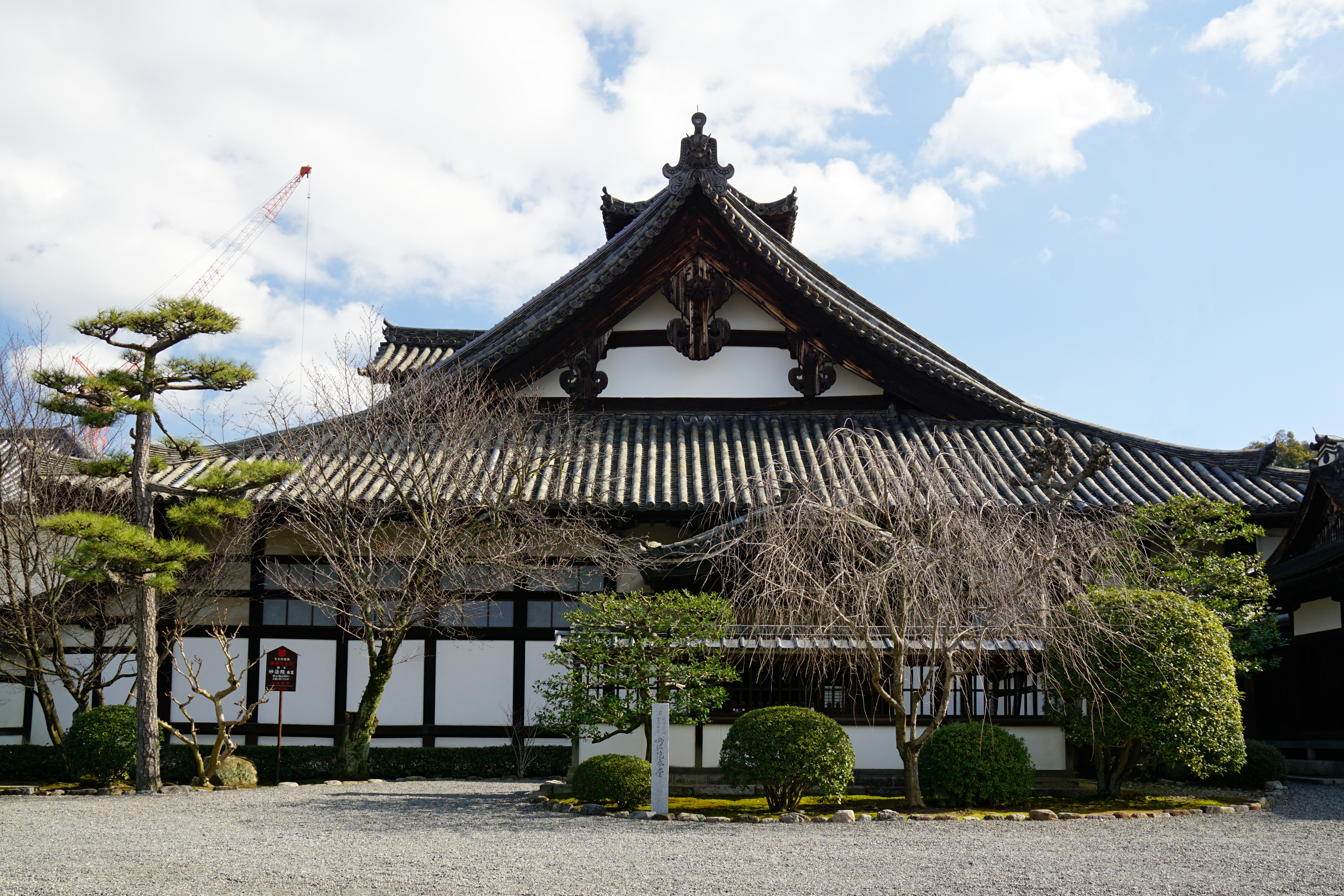 Myohoin in Kyoto, Kyoto prefecture, Japan